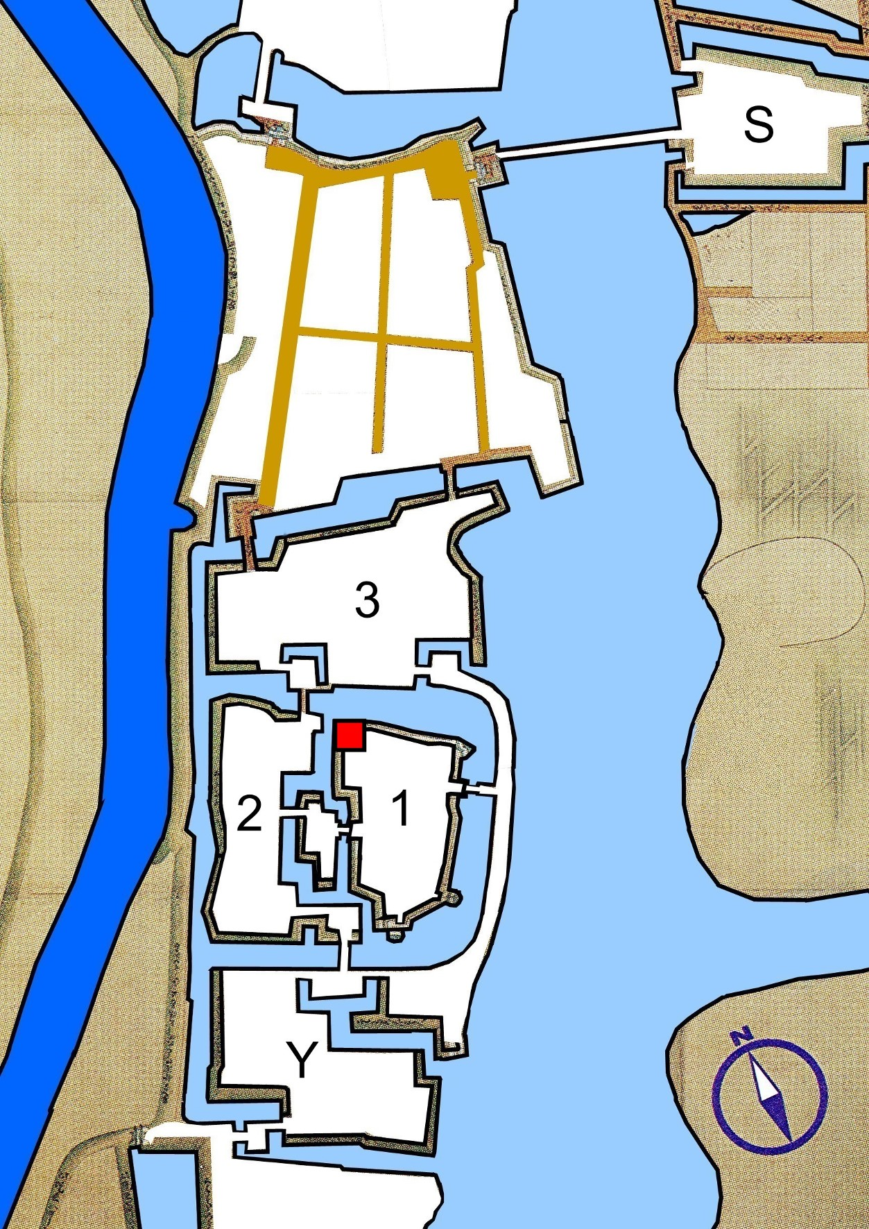 Laout of old Koga Castle